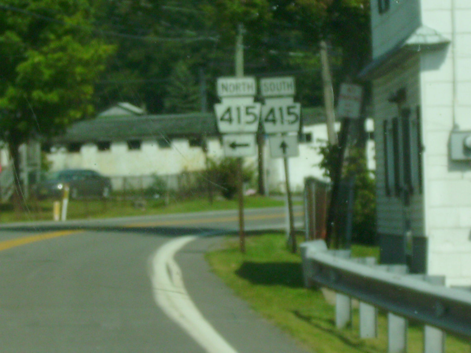 Pennsylvania Route 415 at the intersection with Luzerne County State Route 1415 in the community of Harveys Lake.